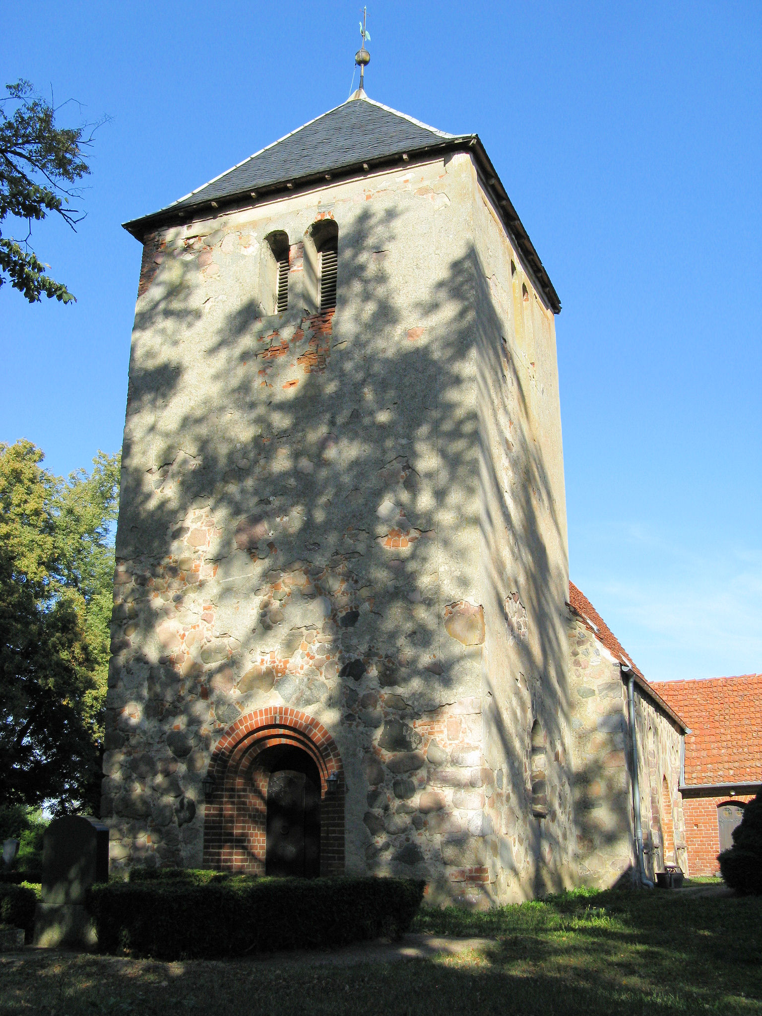 Church in Groß Dratow, disctrict Mecklenburgische Seenplatte, Mecklenburg-Vorpommern, Germany